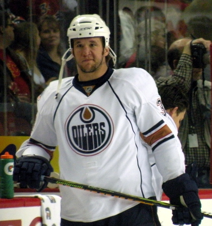 Edmonton Oilers forward Steve MacIntyre during warmup prior to a National Hockey League game against the Calgary Flames in Calgary.